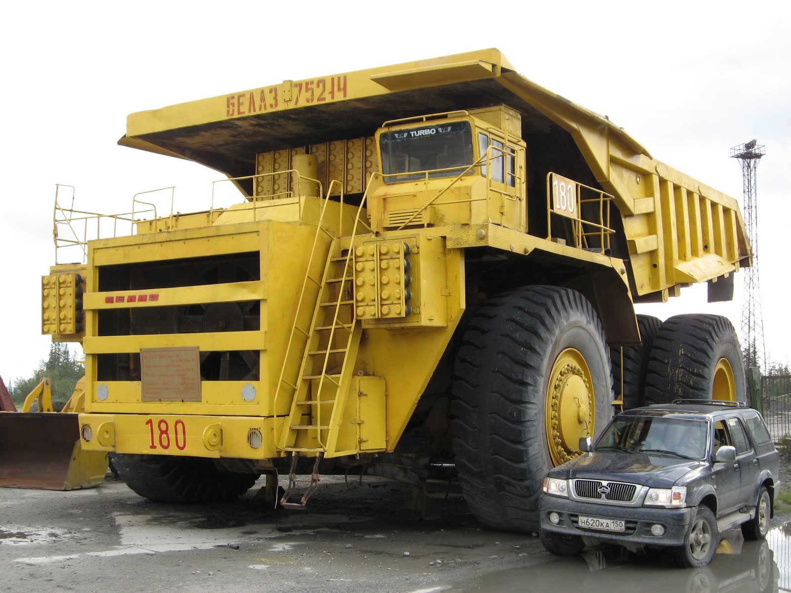 BelAZ-75214 truck in Russia.